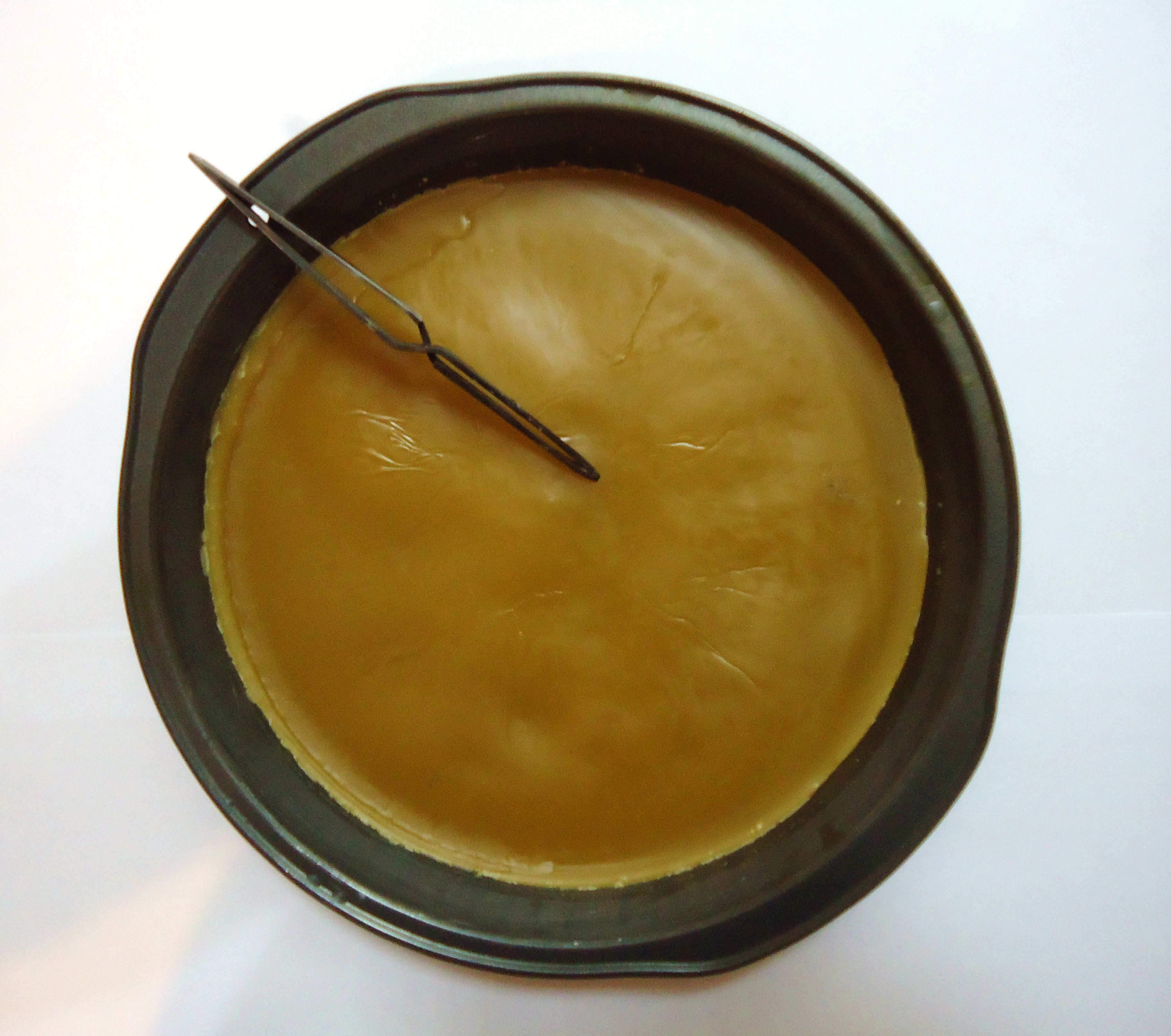 Beeswax, used as a lubricant in jewellery and silversmithing. Mauro Cateb, Brazilian jeweler and silversmith.